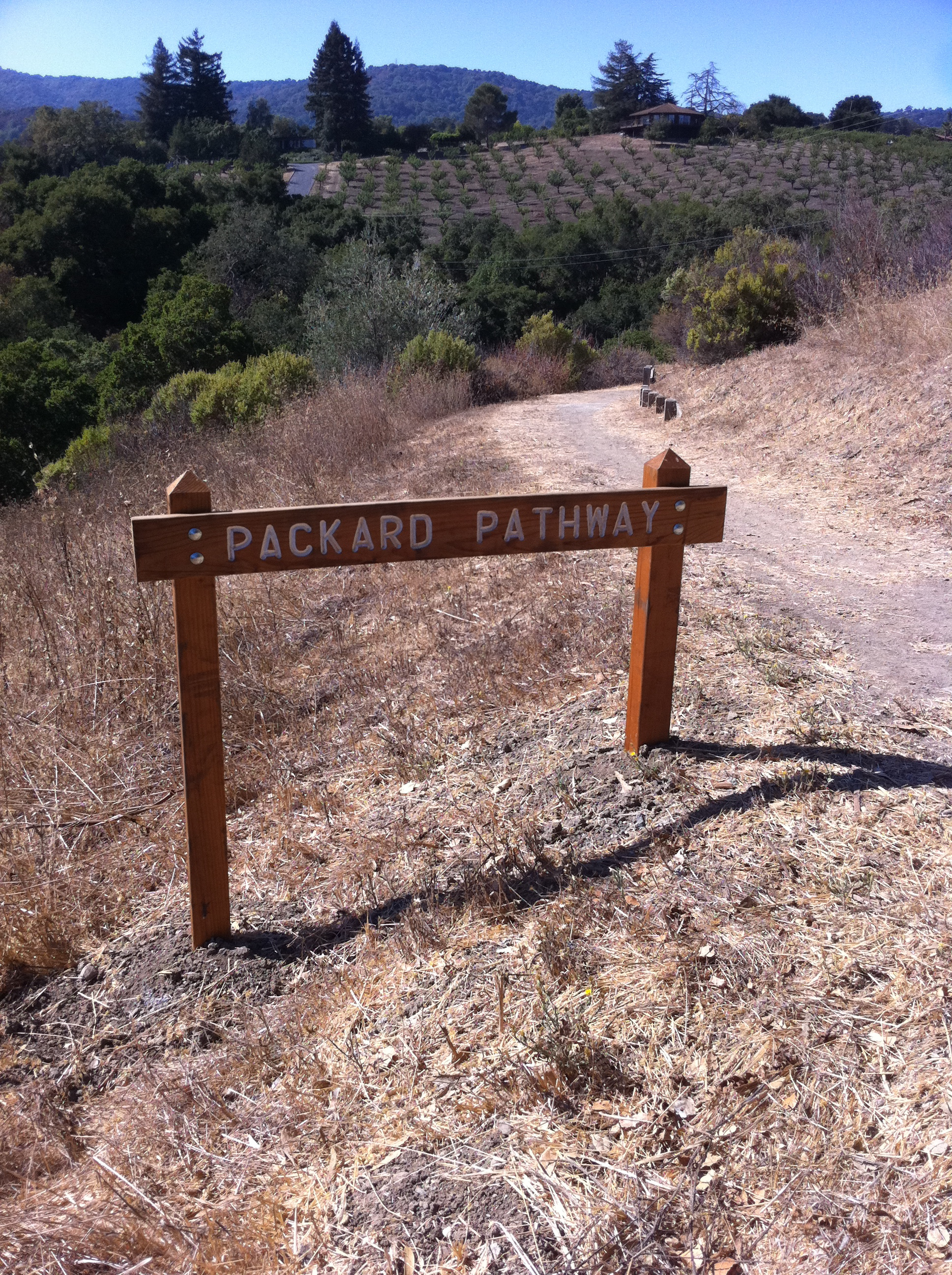 Packard Pathway is a public hiking/riding trail in Los Altos Hills, California that runs along Purisima Creek (Santa Clara County).